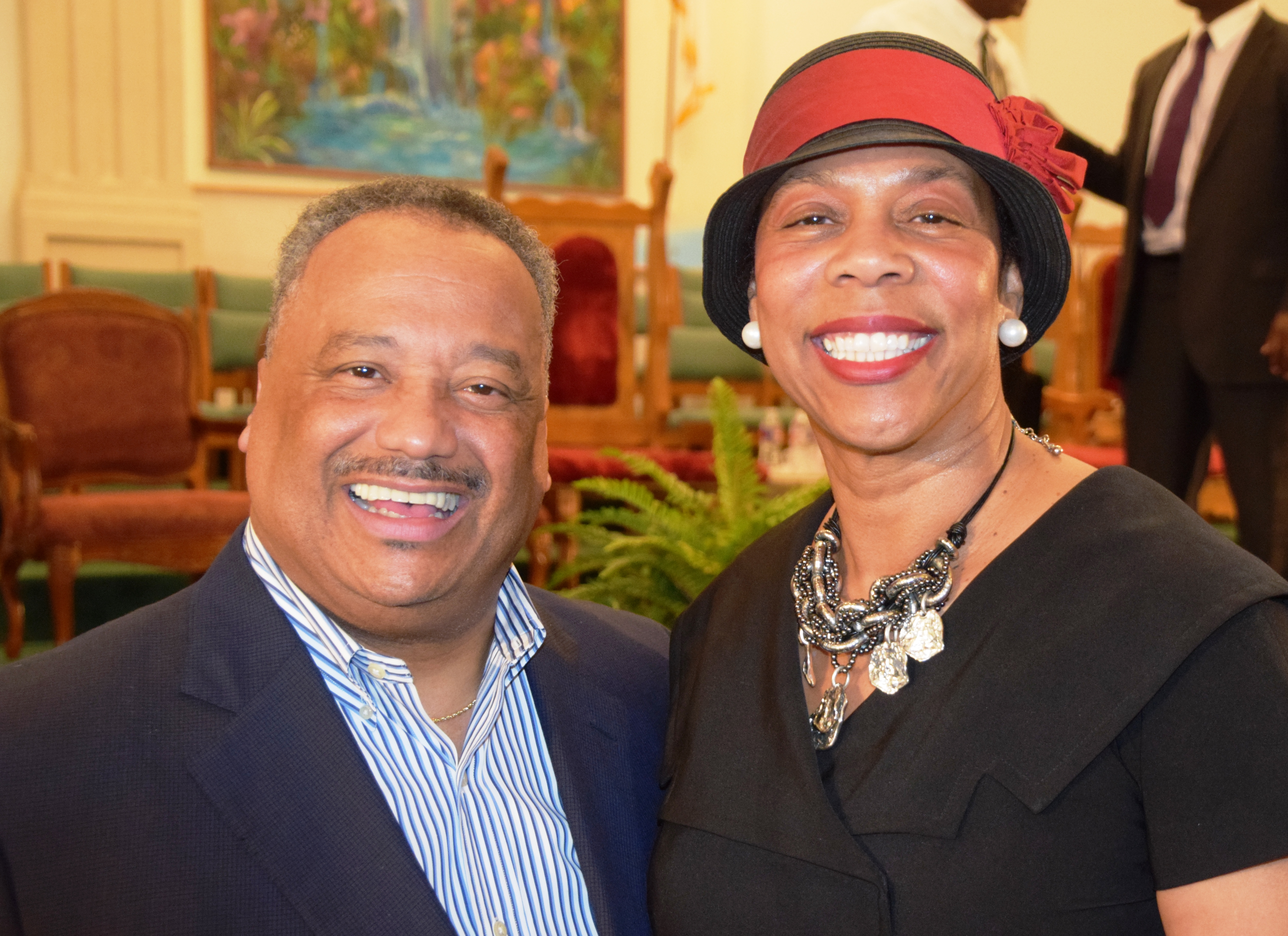 Fred Luter and Elizabeth Luter 2015-05-07